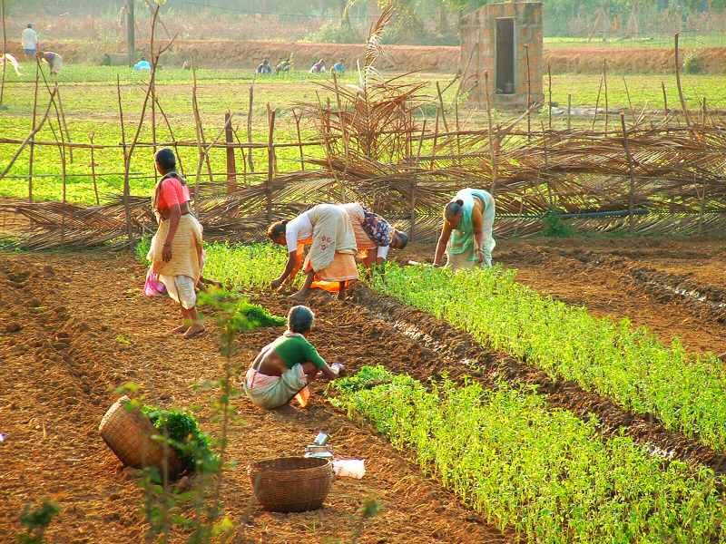 Women working in a plantation north of Chapora river (Goa, India). Norsk (nynorsk): Kvinner arbeider på ein plantasje nord for elva Chapora i Goa.